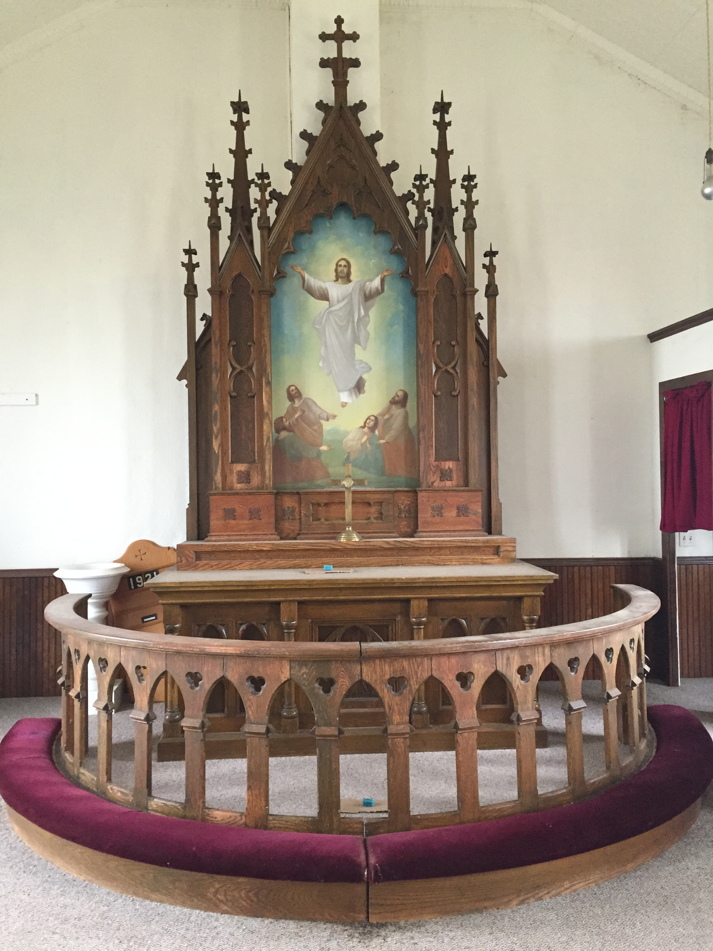 Norwegian made church alter